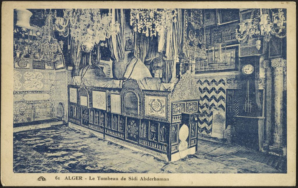 Postcard of Algiers, early 20th century Creator: CAP Date: early 20th century Accession number: ZPC2 A1A4 Featured in the exhibition, Walls of Algiers: Narratives of the City, May 19 - October 18, 2009 at the Getty Research Institute. Part of the Cities and Sites Postcard collection in the Getty Research Institute Library's special collections. View the library record for this collection.